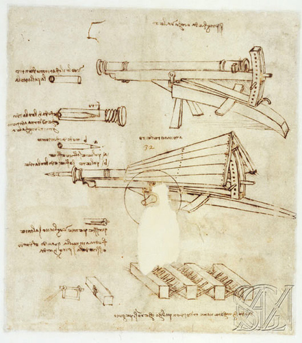 Springald Cannon